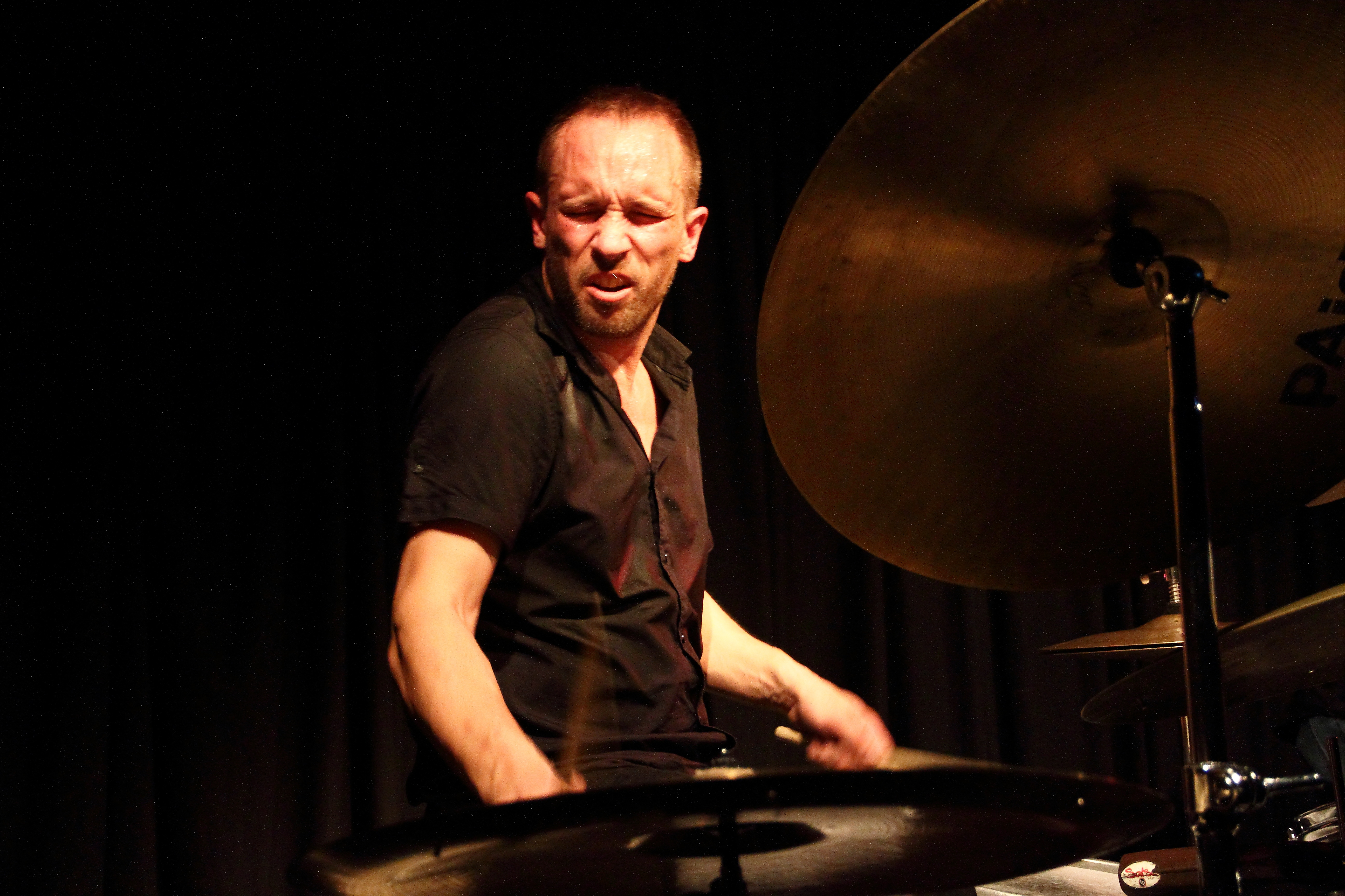 Paal Nilssen-Love with Steve Swell and Peter Brötzmann at Club W71, Weikersheim, in 2016.